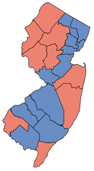 Count-by-county results for the United States Senate Election in New Jersey, 1994.